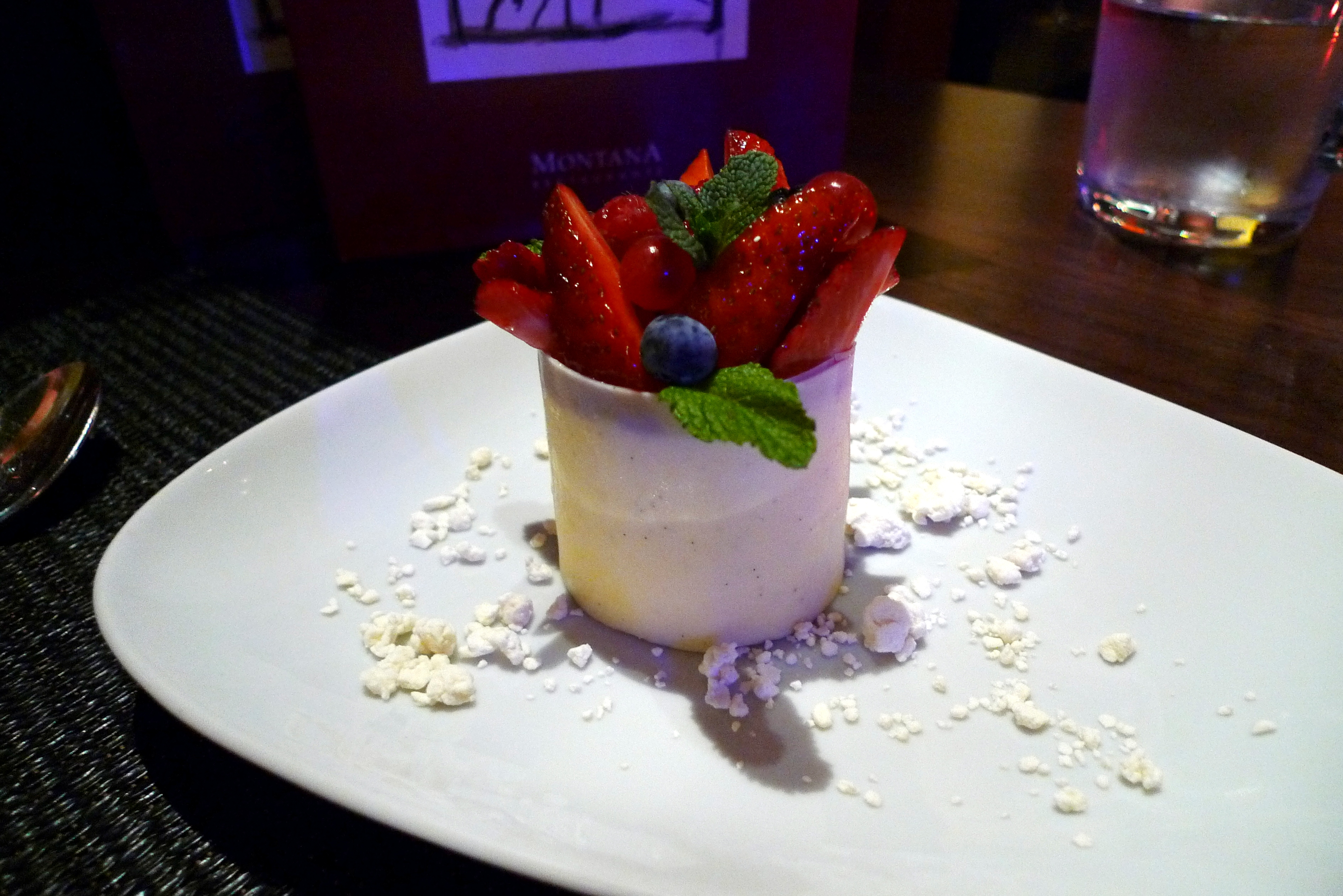 The white chocolate mousse with fresh fruits in a white chocolate shell. Very tasty, extravagant presentation. At Restaurante Montana, Calle del Compás de la Victoria.